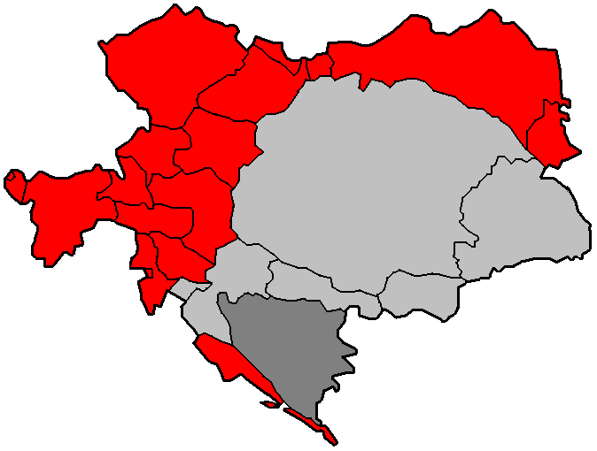 Map of Austria-HungaryCisleithania (red), Transleithania (light grey) and Bosnia and Herzegovina (dark grey)